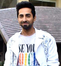 Ayushmann Khurrana promoting Shubh Mangal Zyada Savdhaan, 2020